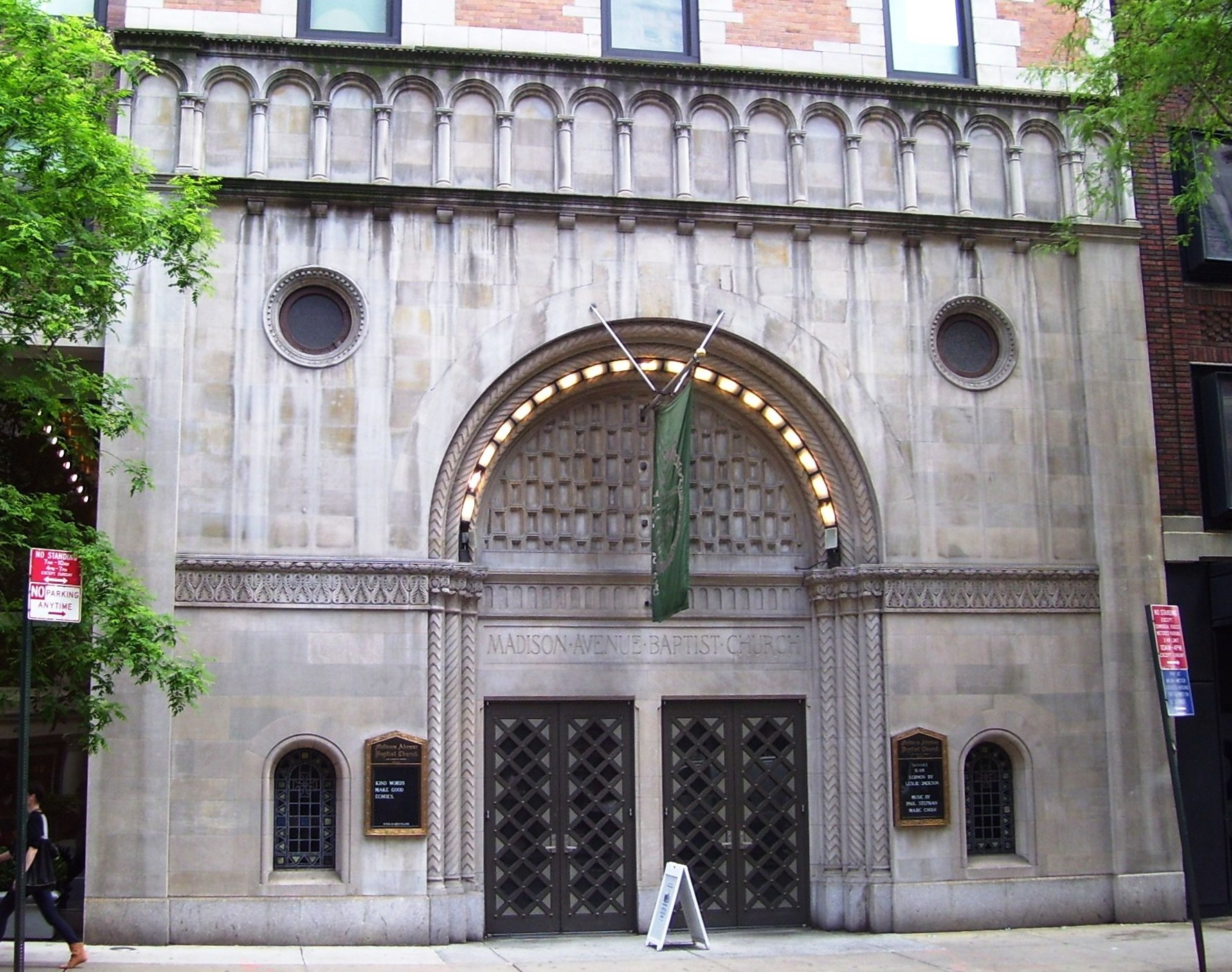 Madison Avenue Baptist Church entrance at in the Hotel Roger Williams building at 129 Madison Avenue between 30th and 31st Street in the Rose Hill neighborhood of Manhattan, New York City.